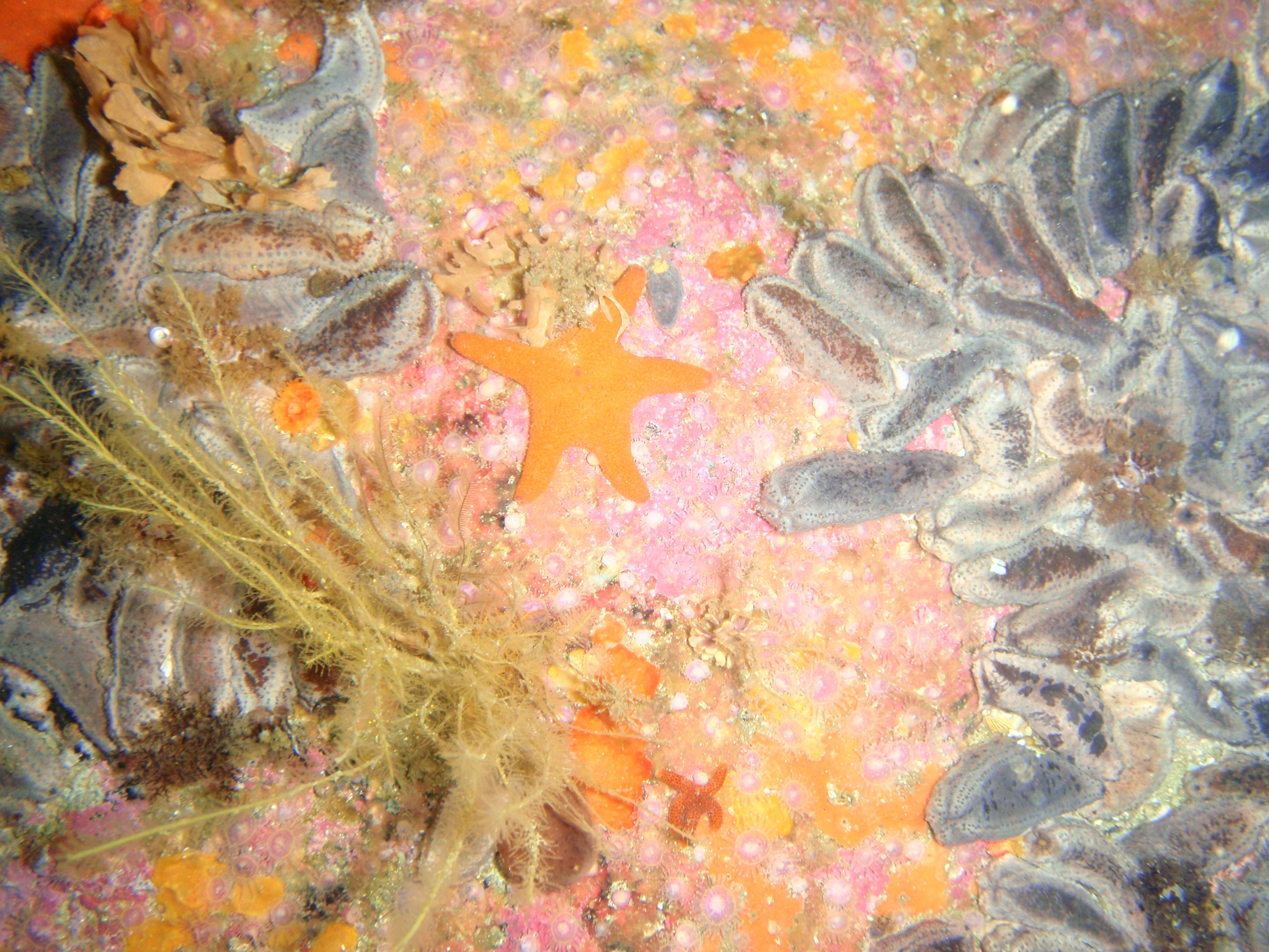 Reef life at Finlay's Deep, Cape Peninsula.